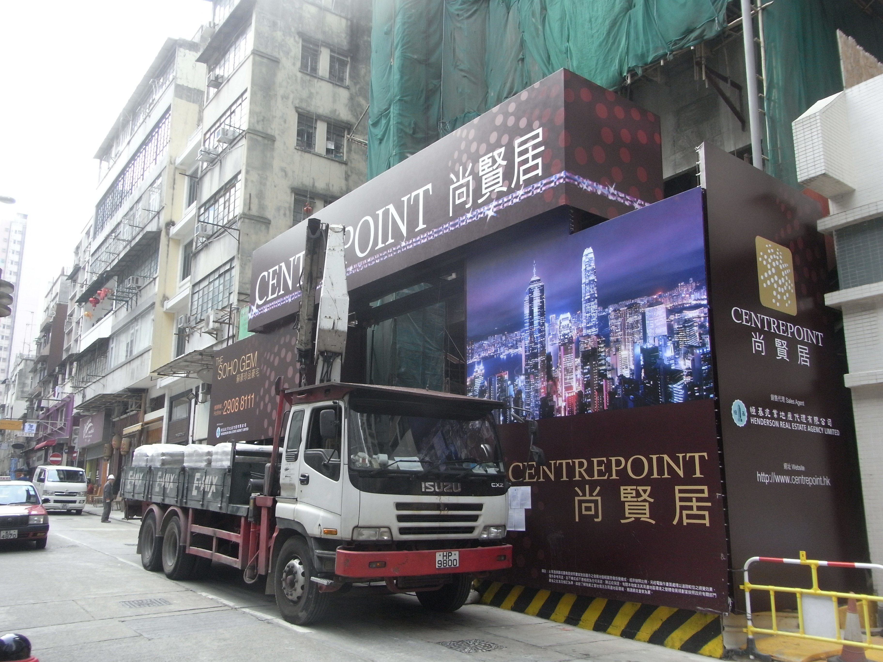 香港島上環 士丹頓街